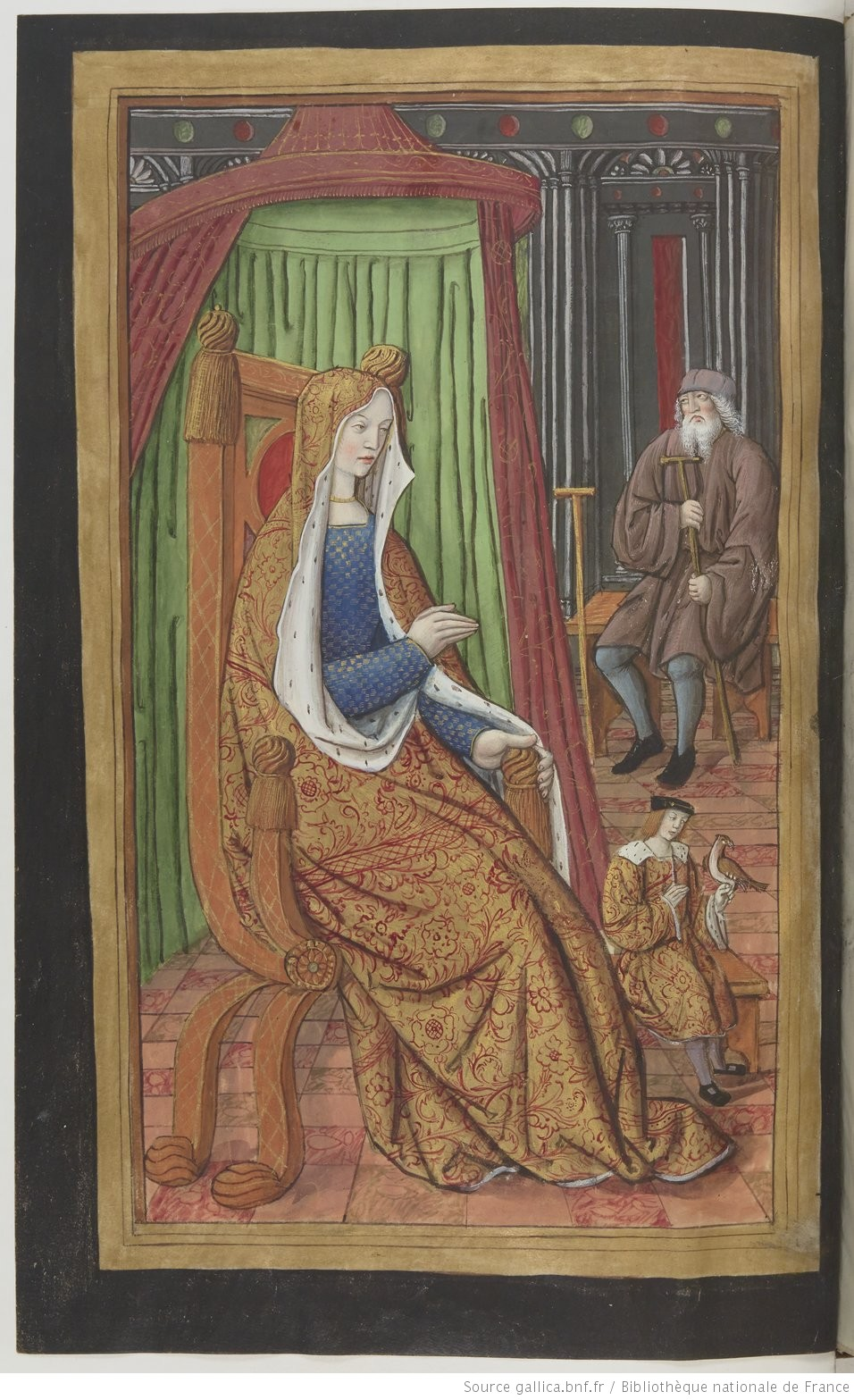 Penelope, Laertes and Telemachus.